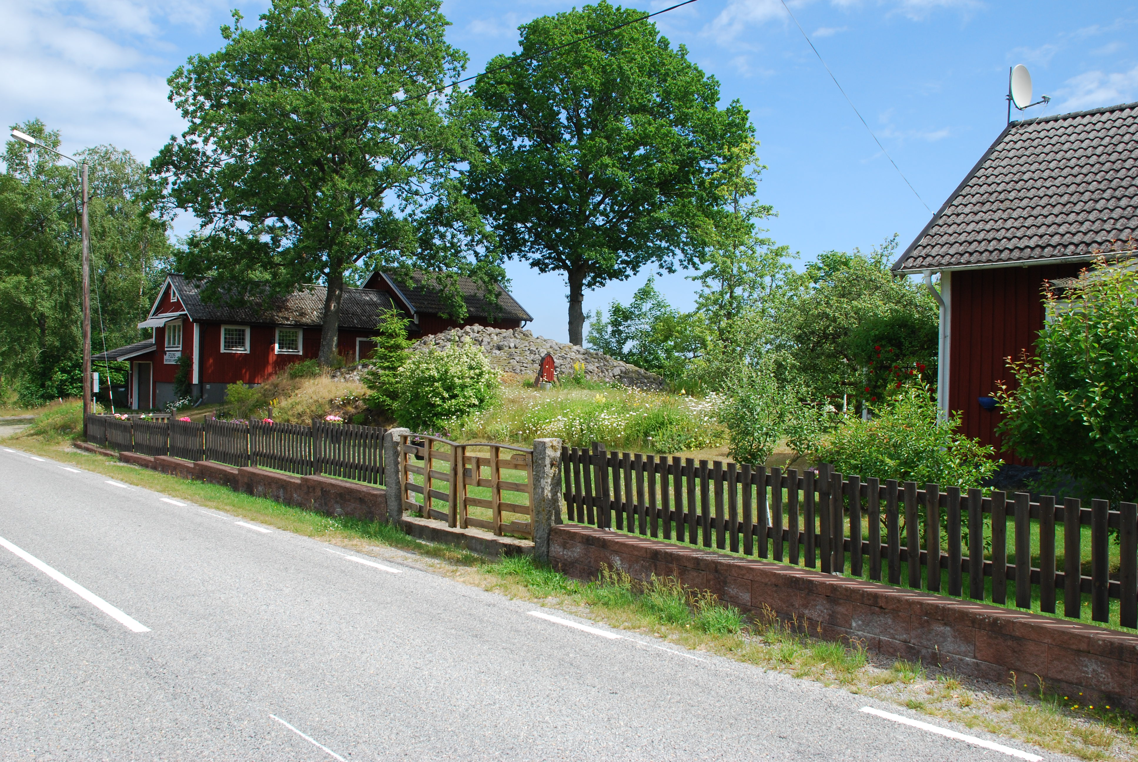 Houses on a grave field with three large cairns (from the Bronze age?)